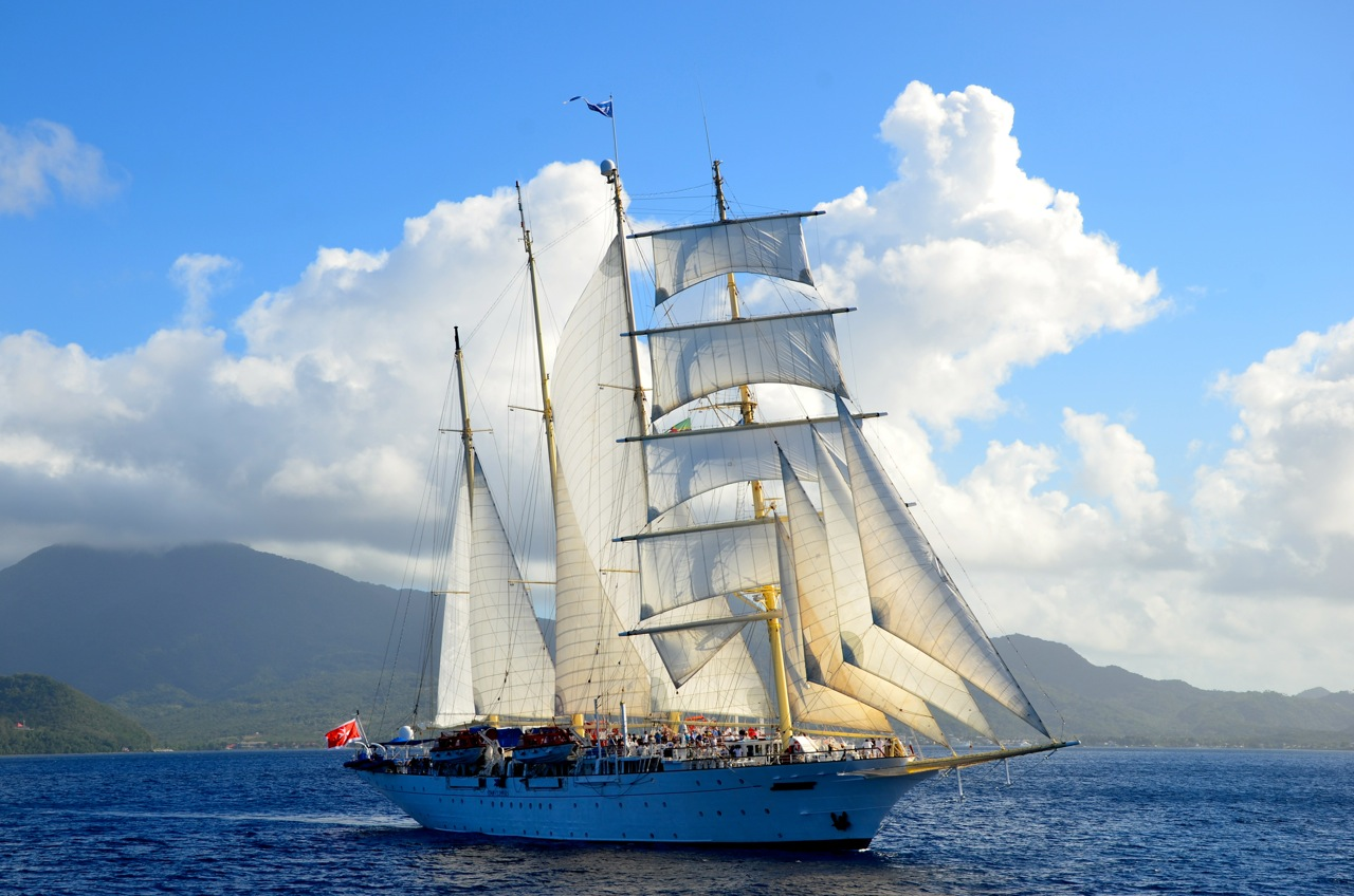 Three quarter view of Star Clipper